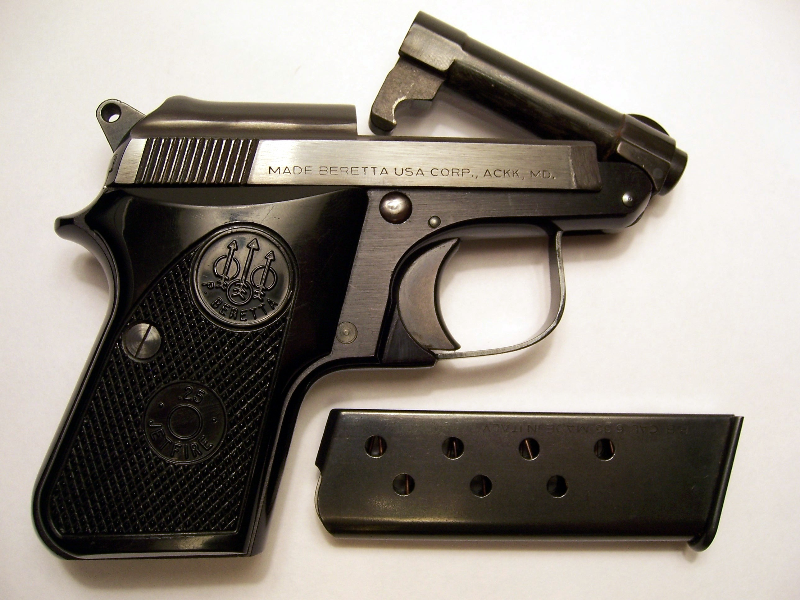 The Beretta 950 Jetfire is a semi-automatic pistol designed and manufactured by Beretta since 1953. It builds on a long line of small and compact pocket pistols manufactured by Beretta for self-defense. Based on very early Beretta models, the weapon is intended to be a very simple and reliable pocket pistol. (Description copied from the English Wikipedia's article on the Beretta 950 Jetfire)